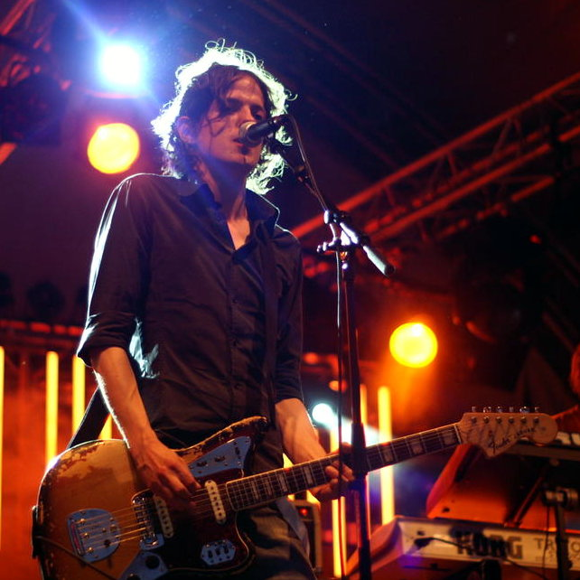 Philip Bosschaerts, singer and guitar player of Mintzkov. Bruis Festival @ Maastricht, 24-08-08.